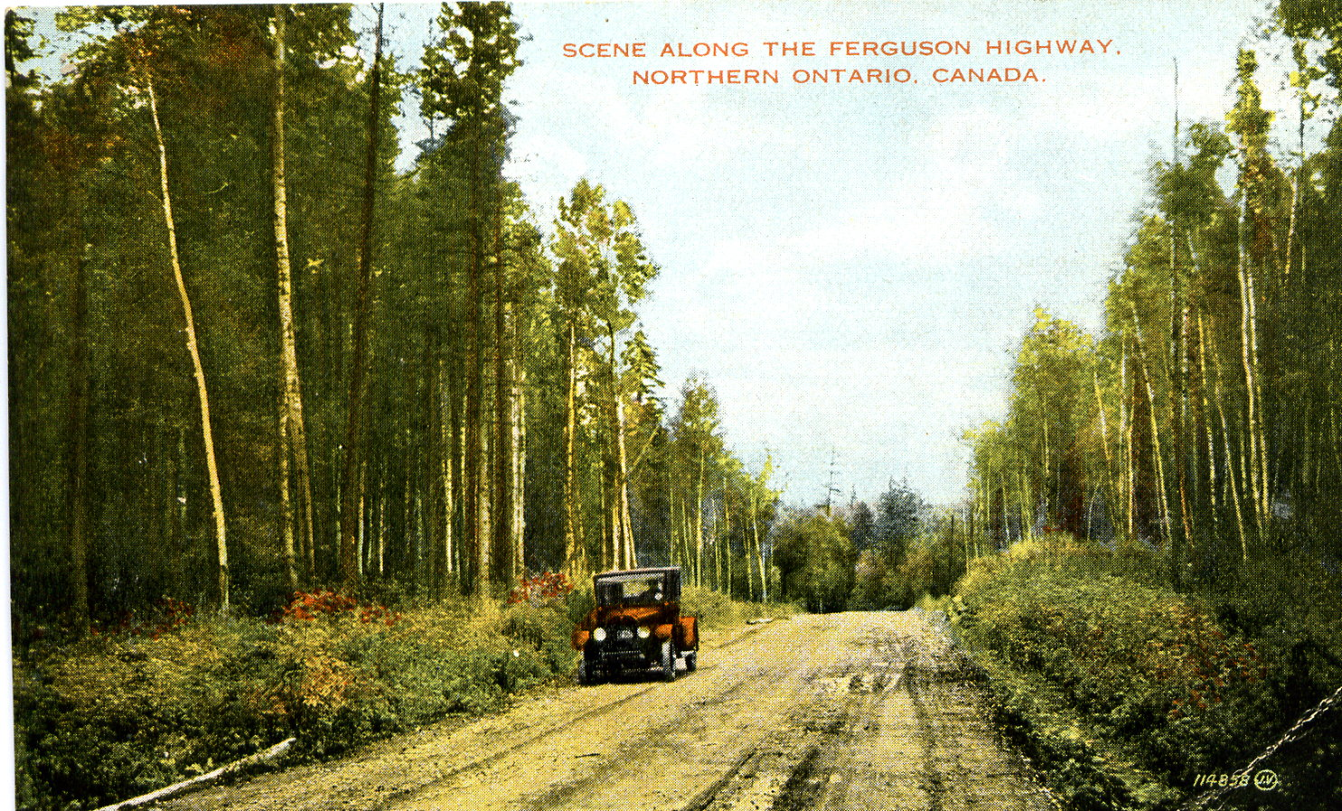 Postcard of the Ferguson Highway (now Highway 11), Northern Ontario, Canada.